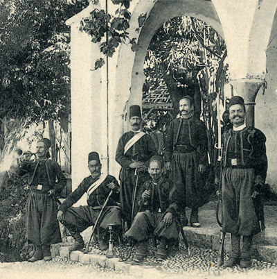 Post-card of local Lebanese soldiers during the semi-Independent, Christian governed, Mutasarrifia period of Mount Lebanon [ 1861-1914 ], which followed the 1860 conflict between the Maronites and the Druze of Syria and Lebanon. " The Governor appointment is subject to the approval of the six great powers and cannot be removed without the consent of their Ambassadors at Constantinople. Lebanon has its own army of volunteer militias ; and the free independent bearing of these mountaineers is in striking contrast to that of the underpaid, underfed and poorly clothed conscripts of the regular army. Yet since the 1861 the mountaineers, Druzes and Maronites alike, have enjoyed an unprecedented quit and increasing material prosperity. " [ SYRIA THE LAND OF LEBANON, LEWIS GASTON LEARY, 1913.]